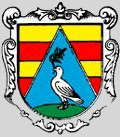 Municipal Flag of Náměšť nad Oslavou town, Třebíč District, Czech Republic.